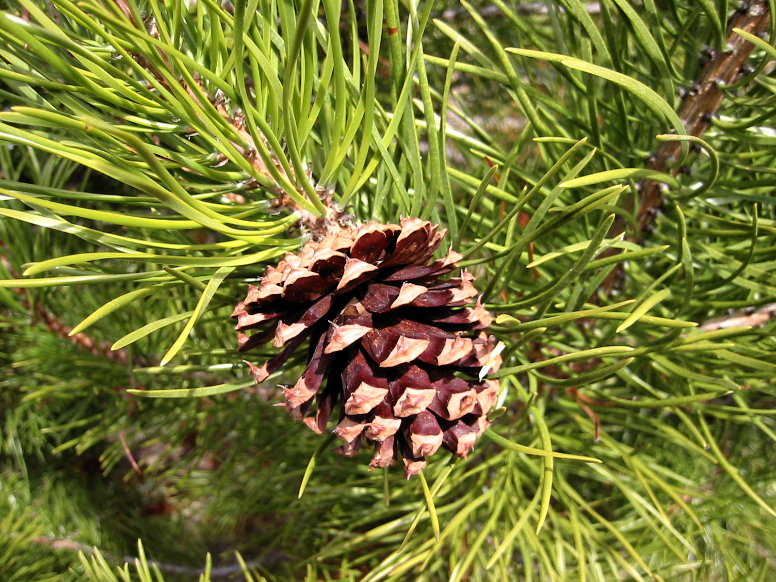 Tamarack Pine, foliage, female cone